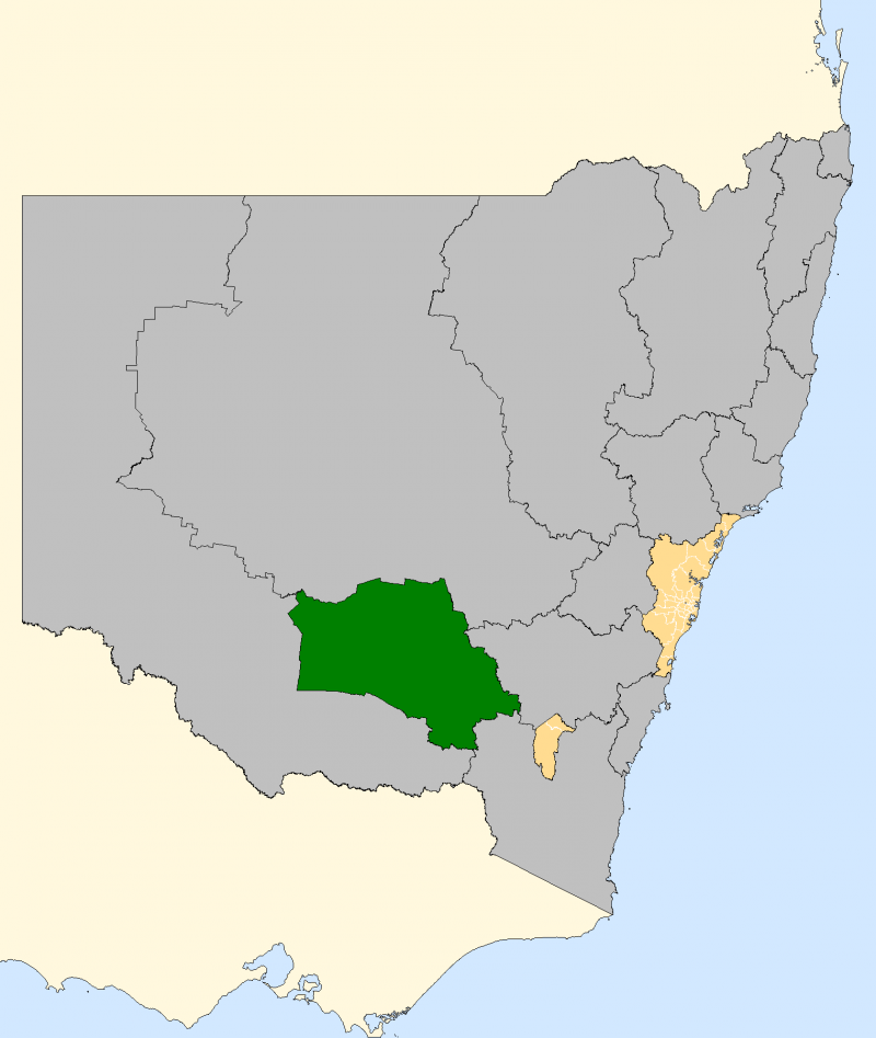 Division of Riverina 2007, with surrounding divisions